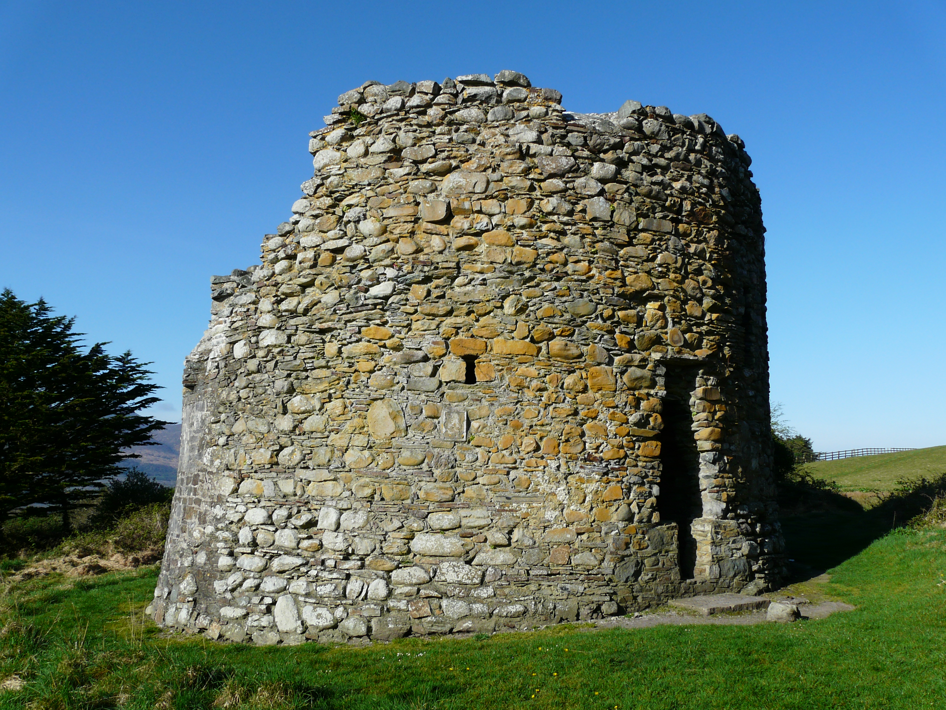 Remains of Parkavonear Castle in Aghadoe outside Killarney, Ireland. The Norman castle had a rare circular keep surrounded by earthworks.